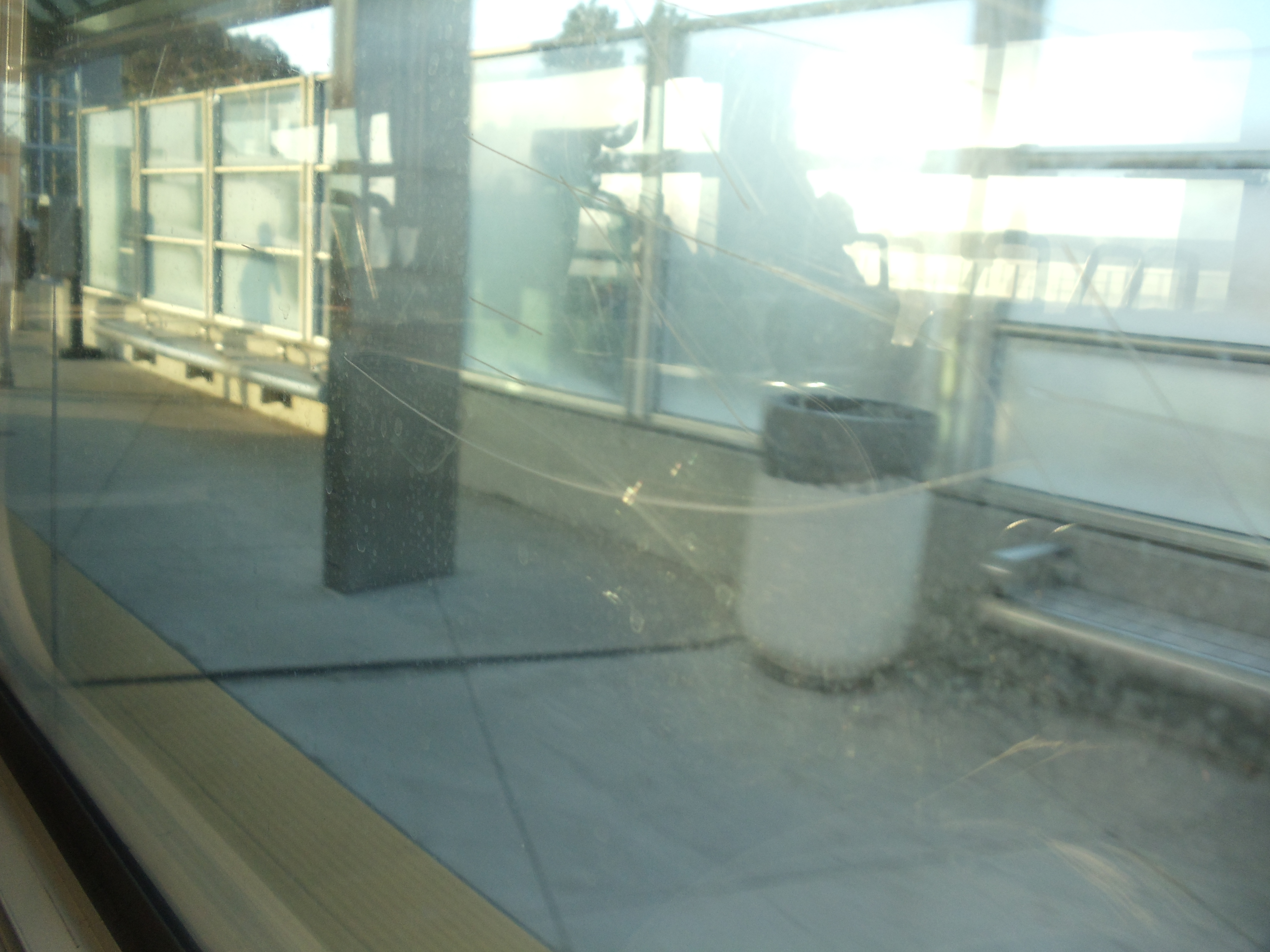 Line 450x freeway stop.